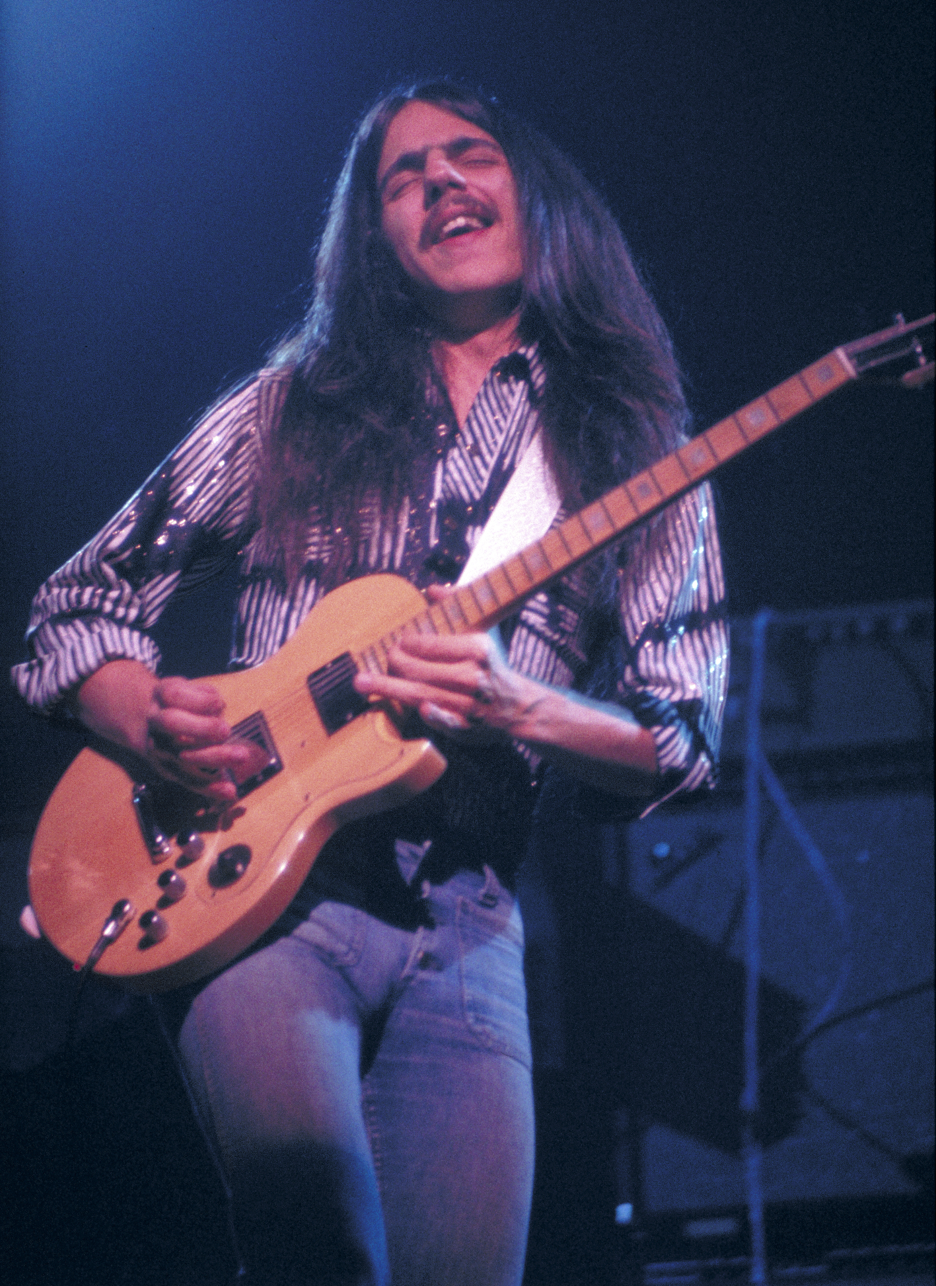 Craig Chaquico, American rock/jazz guitarist